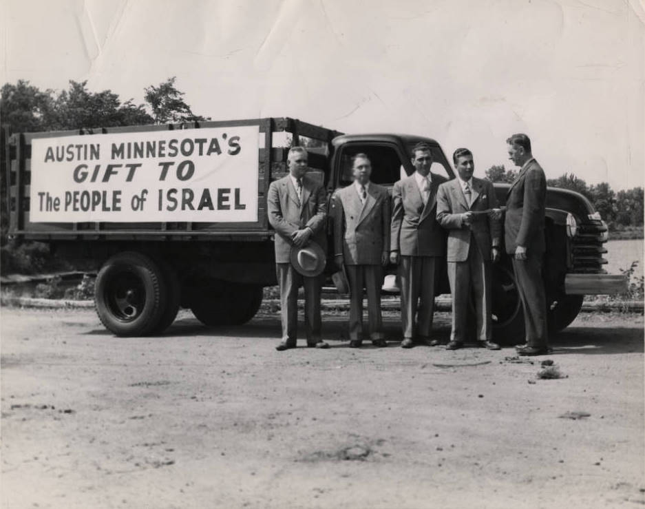 Dignitaries delivering gift from the city of Austin to the people of Israel. The truck was offered by a Jewish family that owned a Chevrolet dealership in Austin to a kibbutz in Israel.